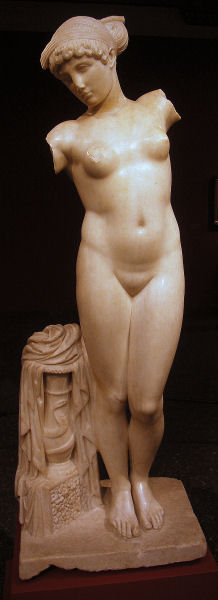 Statue of Aphrodite emerging from the water, maybe an idealized portrait of Cleopatra VII of Egypt. Late Hellenistic artwork.